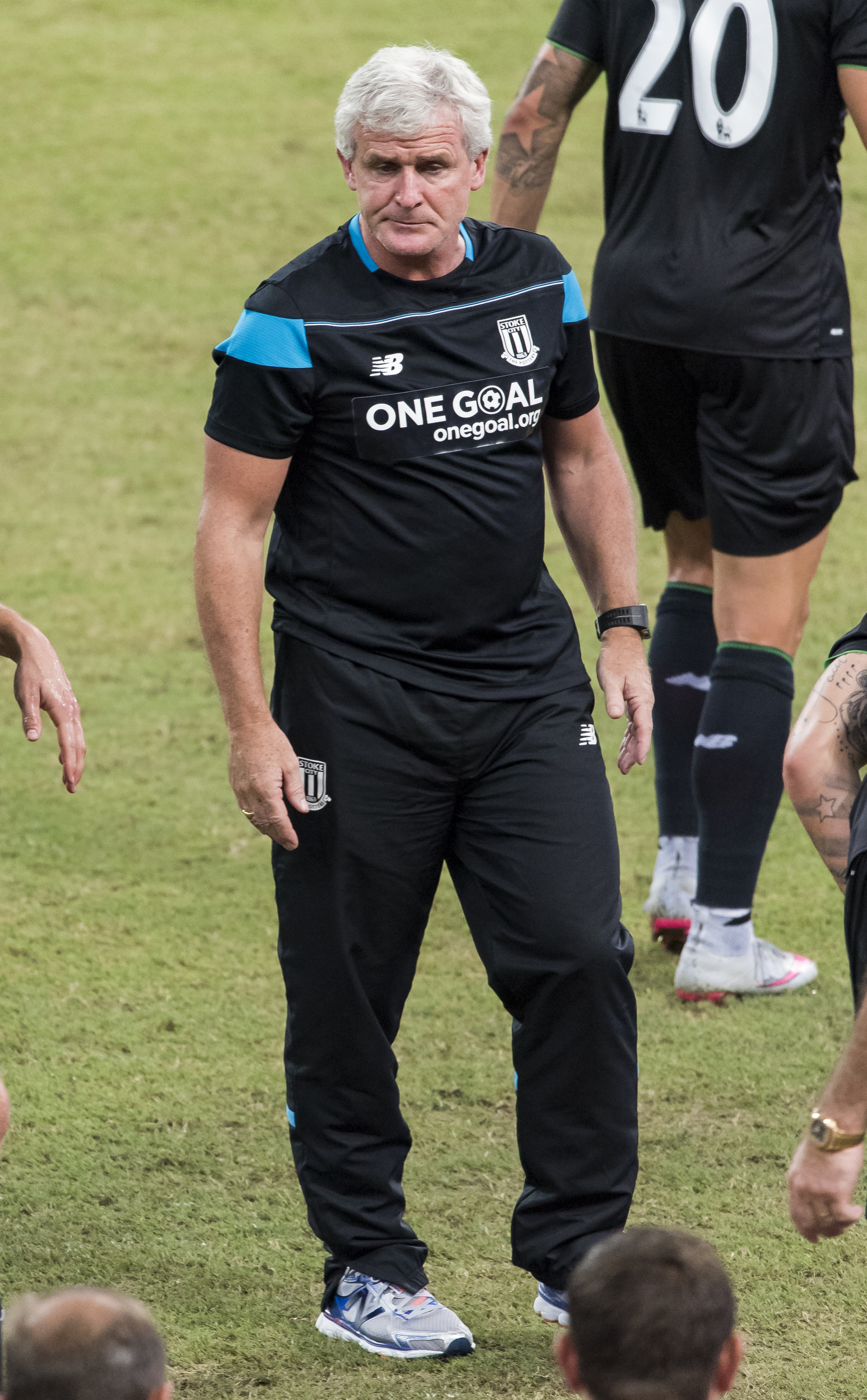 mark hughes manager stoke city barclays asia 2015